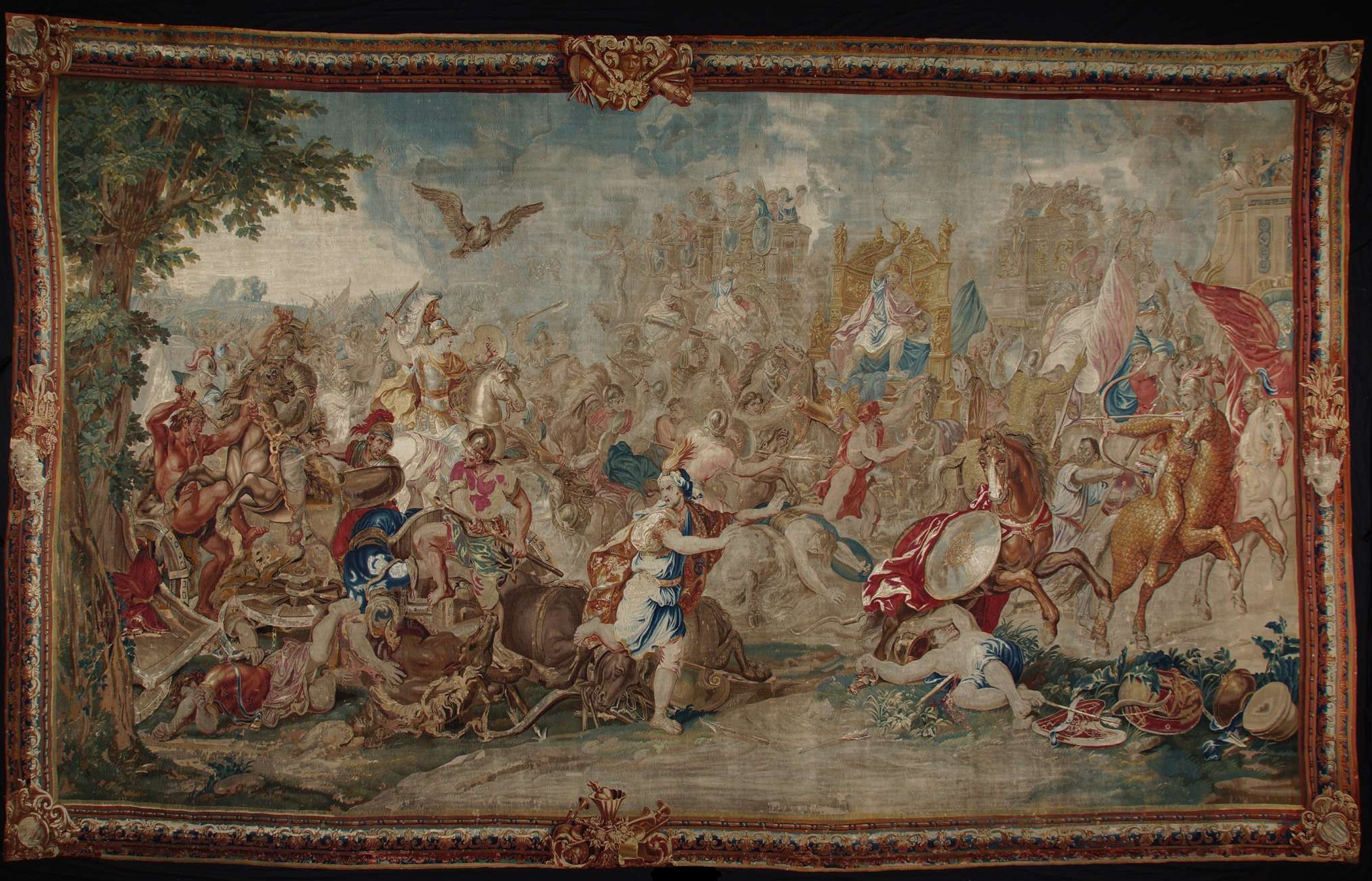 Battle of Arbela, also called Battle of Gaugamela